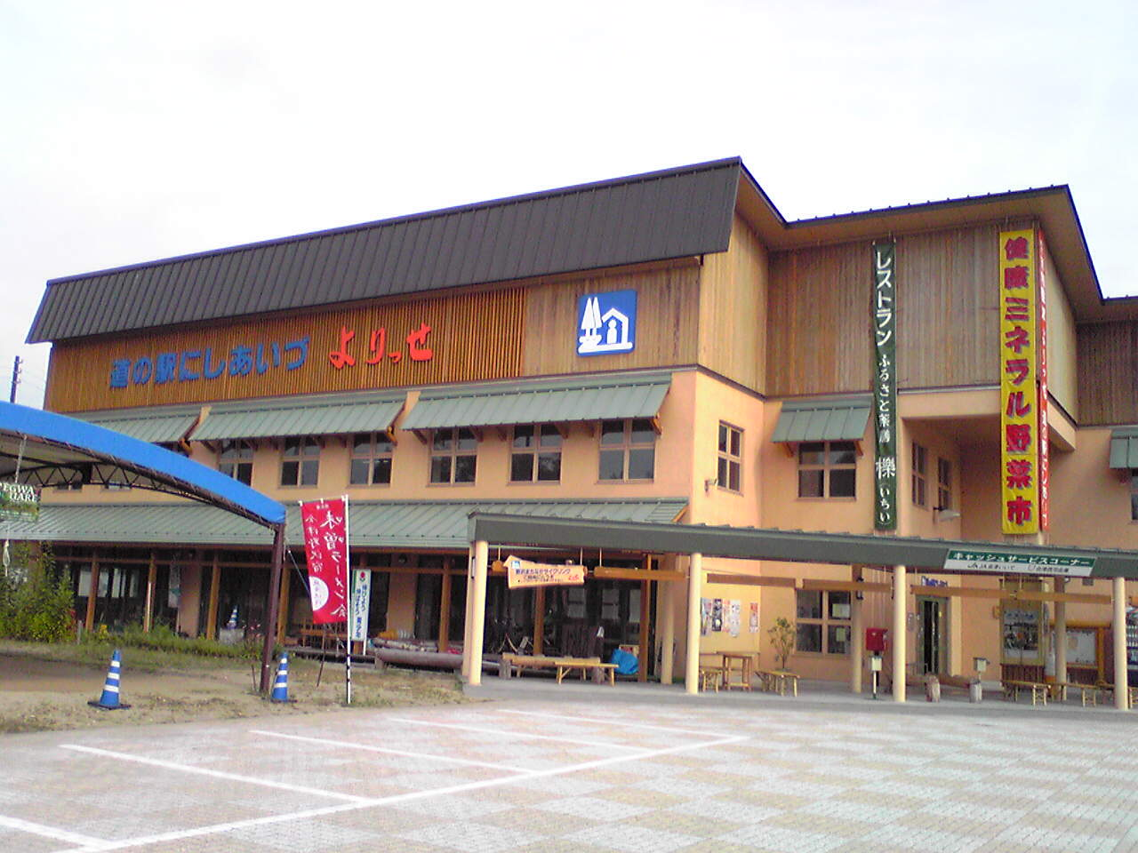 Local products store at Michinoeki Nishiaizu in Nishiaizu Town, Fukushima Prefecture, Japan